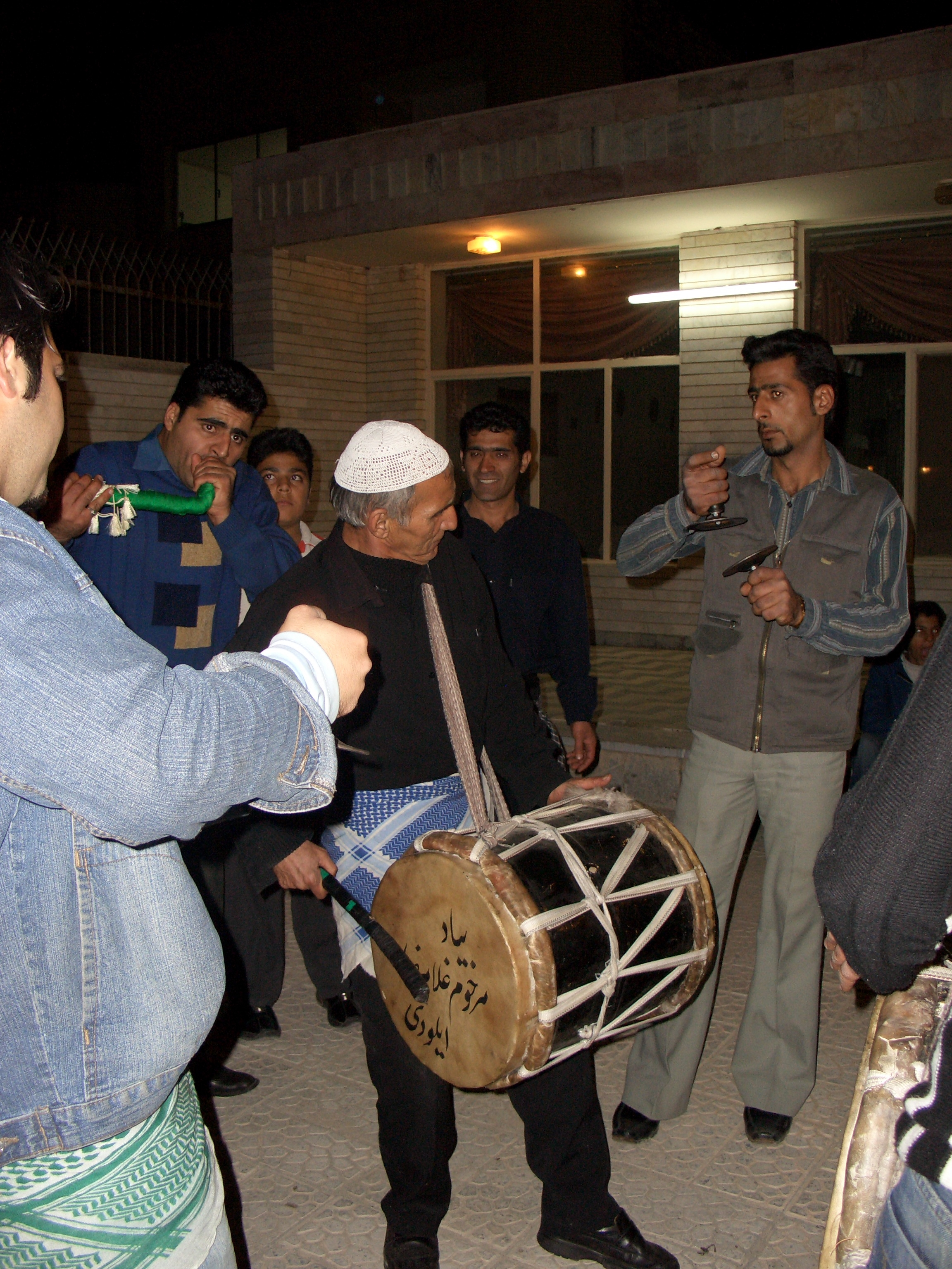 Senj and Dammam.